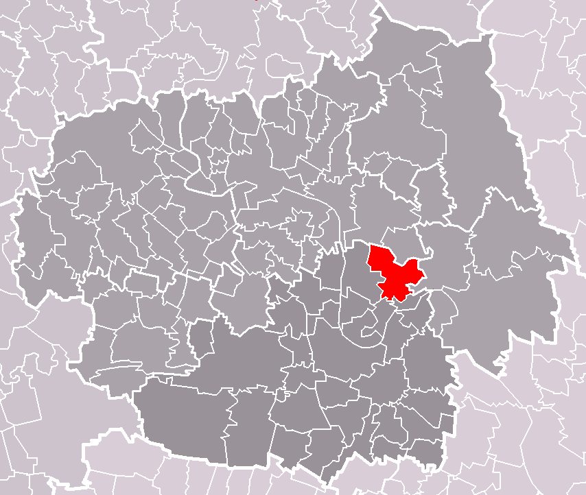 Location of Vrbice municipality within Litoměřice District and administrative area of Roudnice nad Labem as a Municipality with Extended Competence.